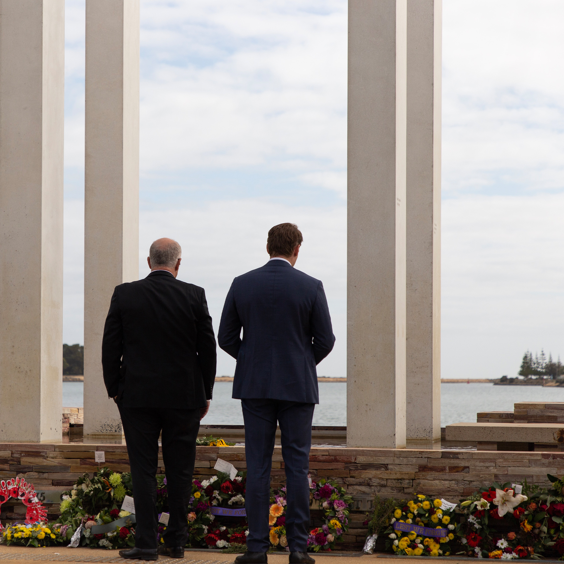 AH and PM at Mandurah War Memorial (KN)